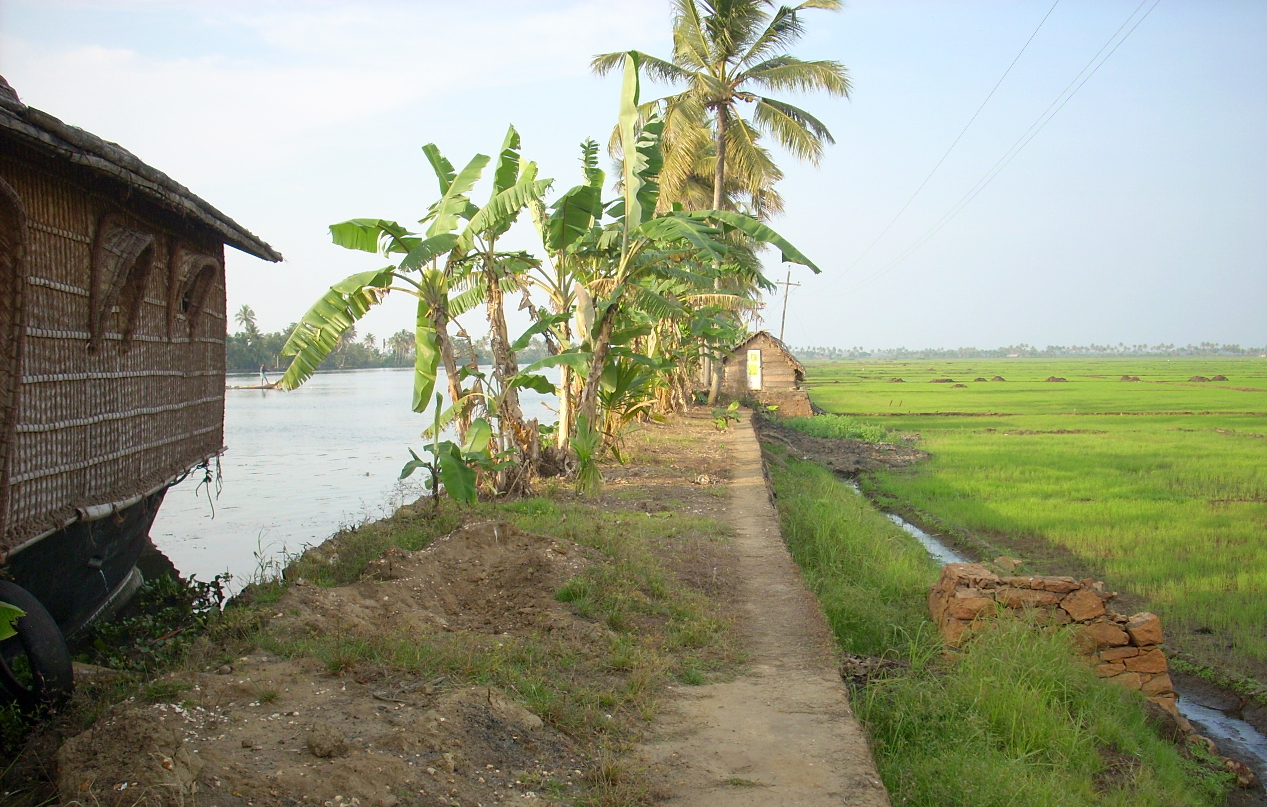 Paddy fields in the Kuttanad region.